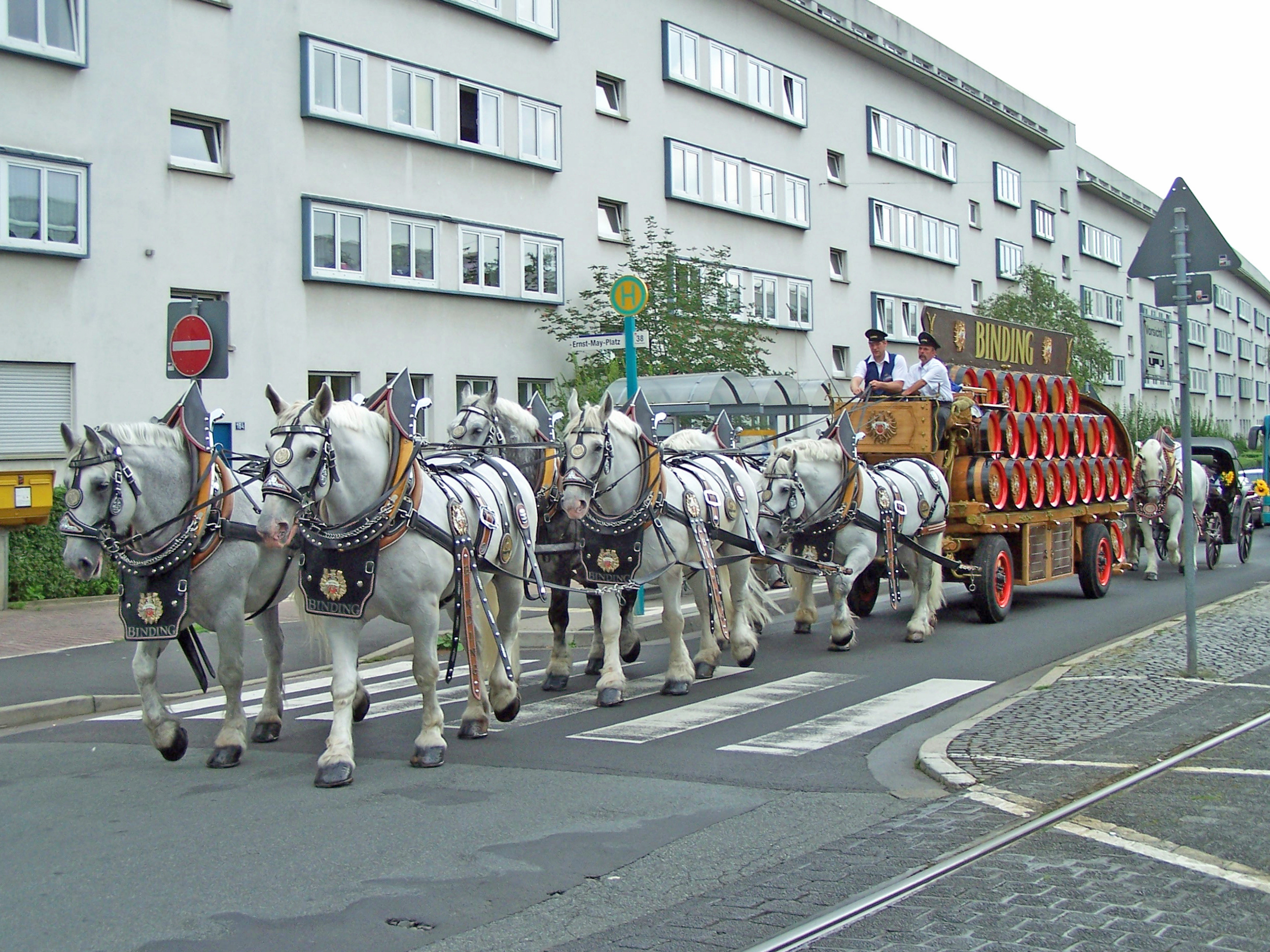 Binding brewery 6 horses wagon on its way to the starting lineup of the Bernemer Kerb procession in the Bornheimer Hang settlement, in the Wittelsbacher Allee in Frankfurt am Main-Bornheim at the bus stop alongside the tram stop Ernst-May-Platz, August 13th, 2011